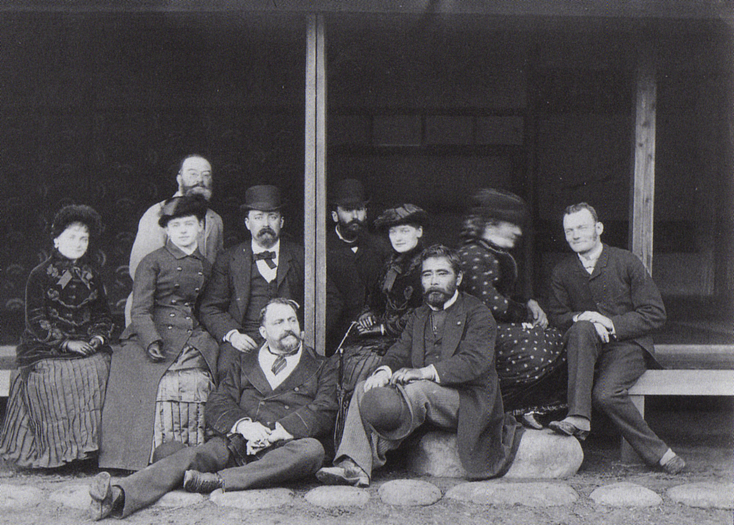 Saigo Tsugumichi with foreign friends - Felice Beato seated in front with him